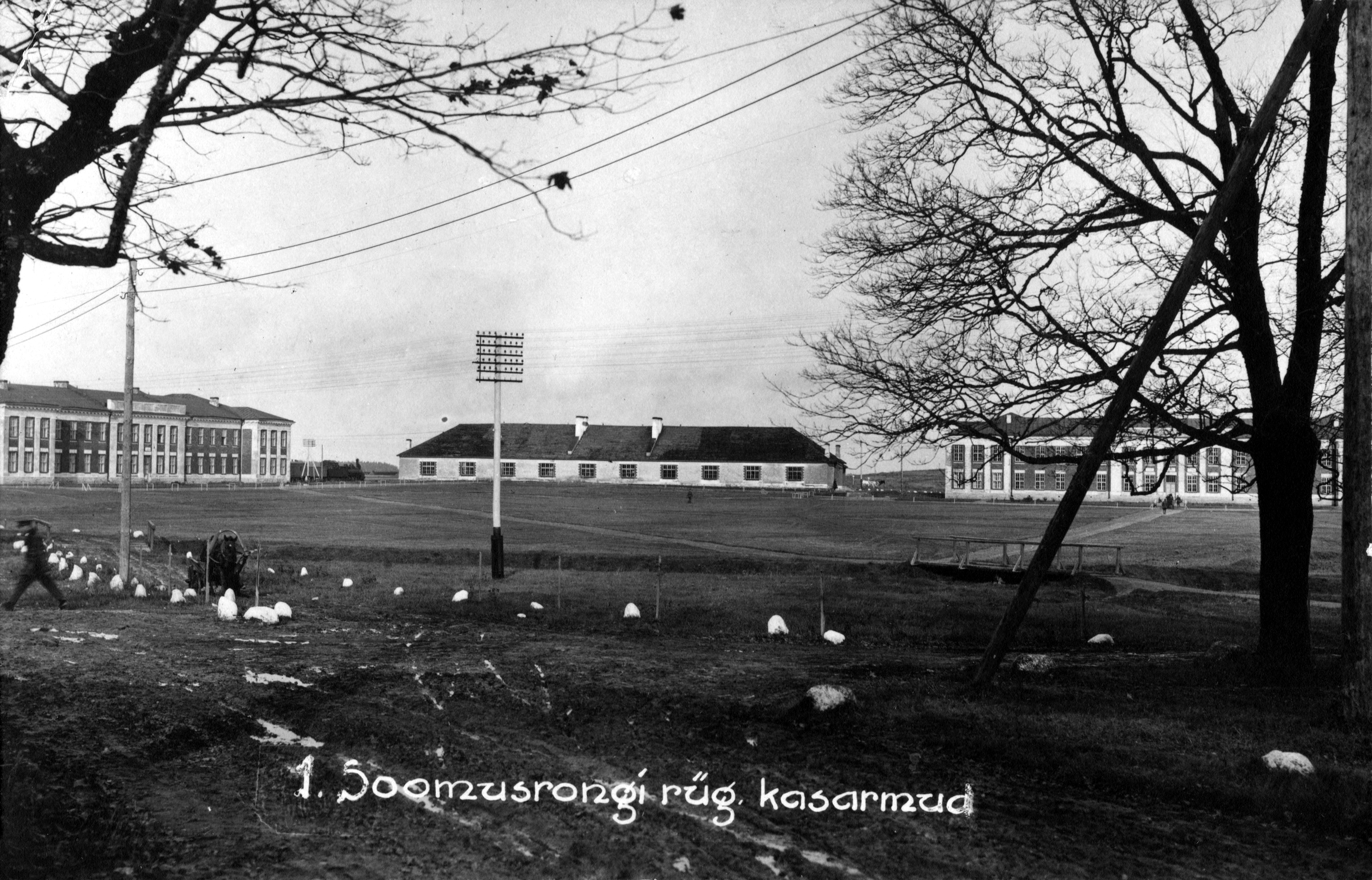 Barracks of the 1st Armored Train Regiment. On the left, barracks of the armored train "Kapten Irv" (Captain Irv) team; on the right, barracks of the armored train No 3 team; in the middle cinema-gym and canteen, in 1931.